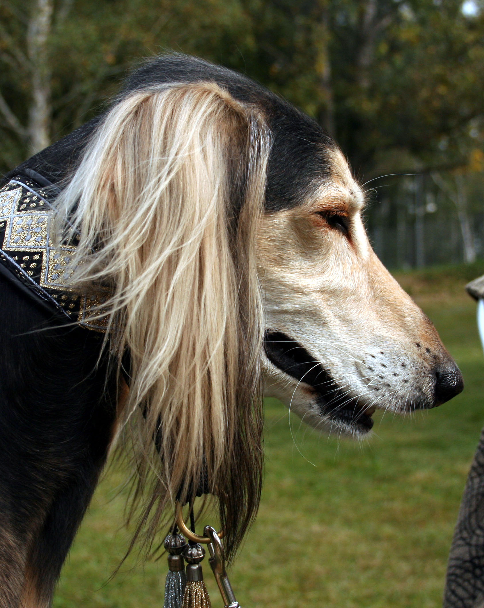 A Saluki at a dog show